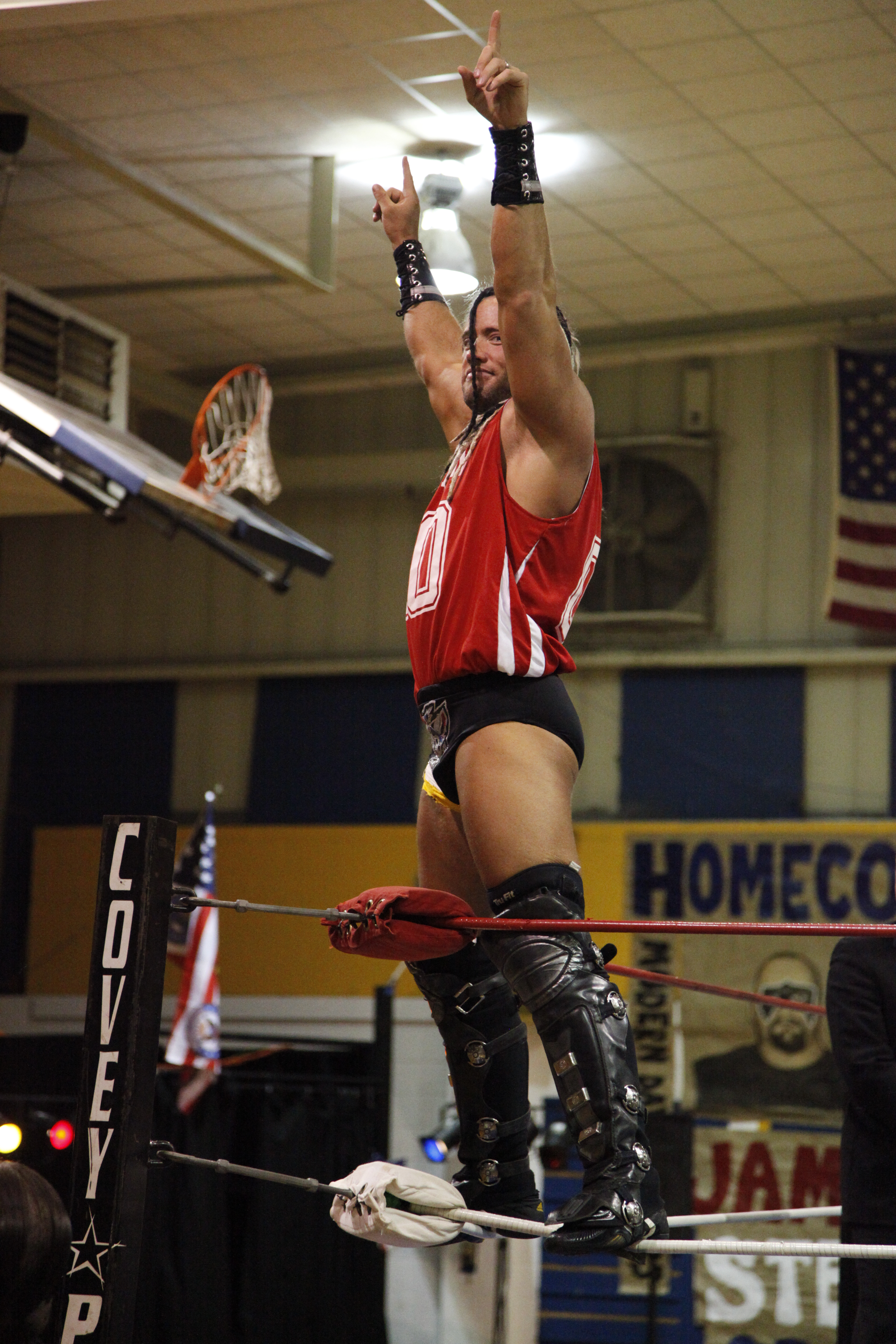 Christian York appearing at an independent wrestling show in Berkley Springs, WV